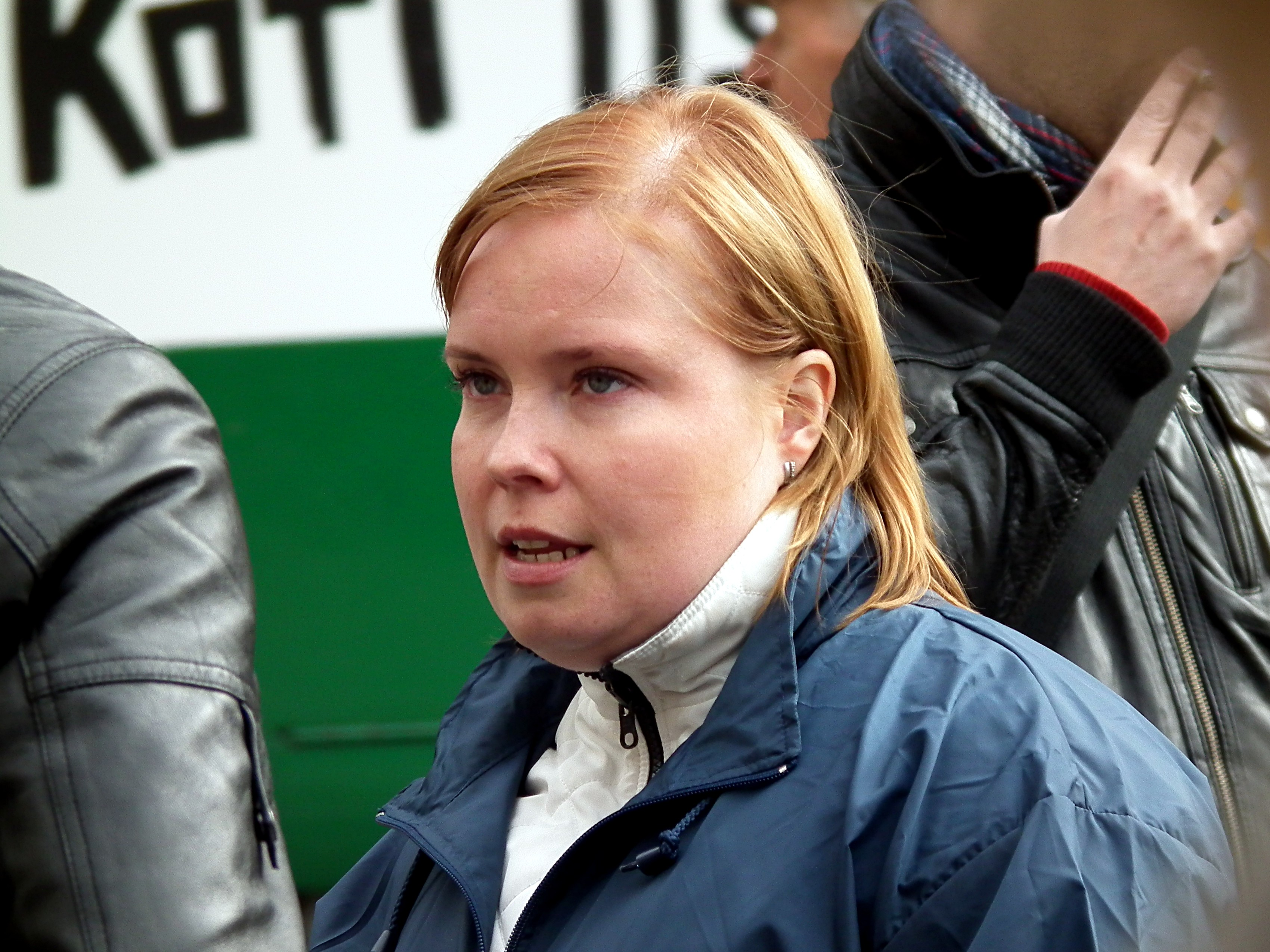 Finnish politician Laura Räty